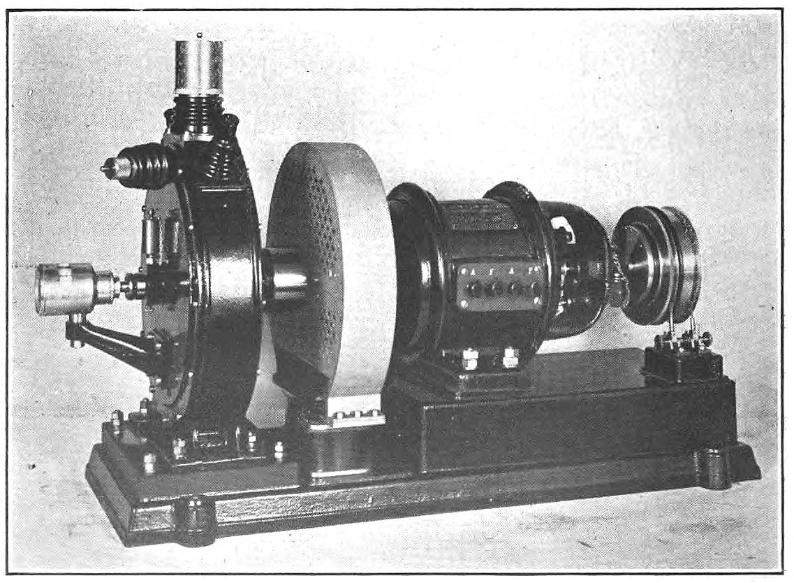 The Goldschmidt tone wheel, a rotary switch invented by German engineer Rudolf Goldschmidt used in early radio receivers for reception of radiotelegraphy (Morse code) signals. This device was used in RCA's transatlantic reception station at Tuckerton, New Jersey as a beat frequency oscillator to receive international telegram traffic. The device consisted of a commutator wheel with many contacts around the rim spun at a high speed by an electric motor, with a sliding spring contact. When connected to a current source the wheel broke the current many times per second, acting as a high frequency generator. The high frequency signal created by the wheel was mixed with the incoming Morse code signal, and created an audible beat frequency that was heard as a tone in the receiver's earphones ,making the pulses of carrier, the "dots" and "dashes" audible. This tone wheel rotated at 4000 RPM and produced a square wave signal of around 40 kHz. Tone wheels were used for a short time around World War 1, until they were replaced by vacuum tube beat frequency oscillators in the 1920s. Later tone wheels were used in electronic organs to generate audio